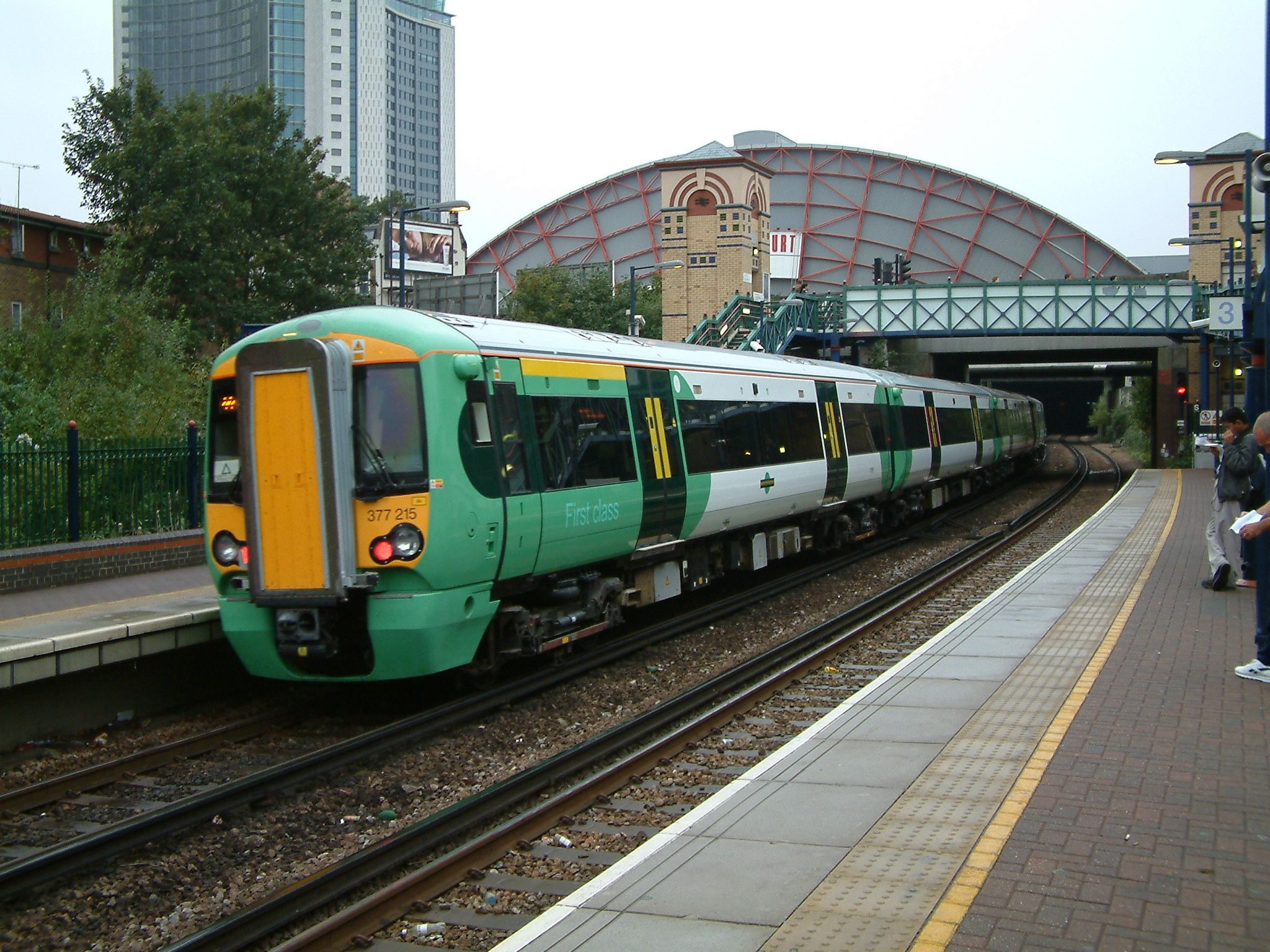 Southern 377 215 calling at West Brompton